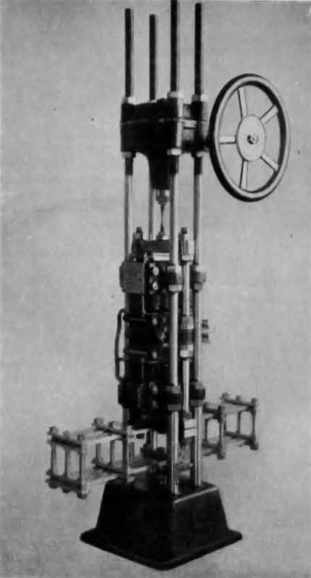 Bernard Parker Haigh's Alternating Stress Testing Machine as manufactured by Bruntons Ltd., Scotland